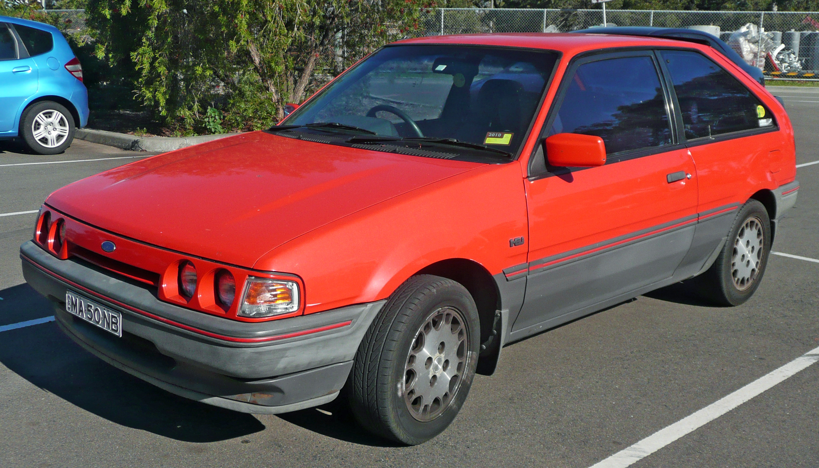 1987–1990 Ford Laser (KE) TX3 3-door hatchback. Photographed in Kirrawee, New South Wales, Australia.